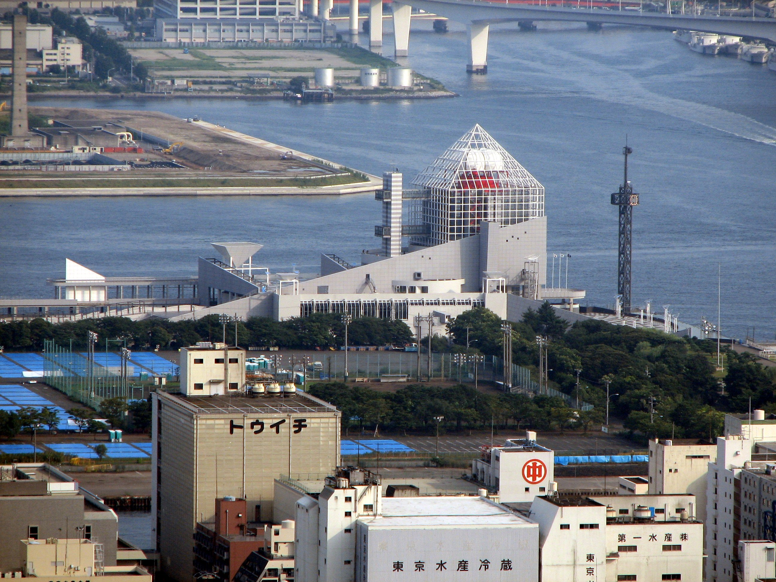 The Harumi Passenger Ship Terminal in Tokyo, as seen from Shiodome.